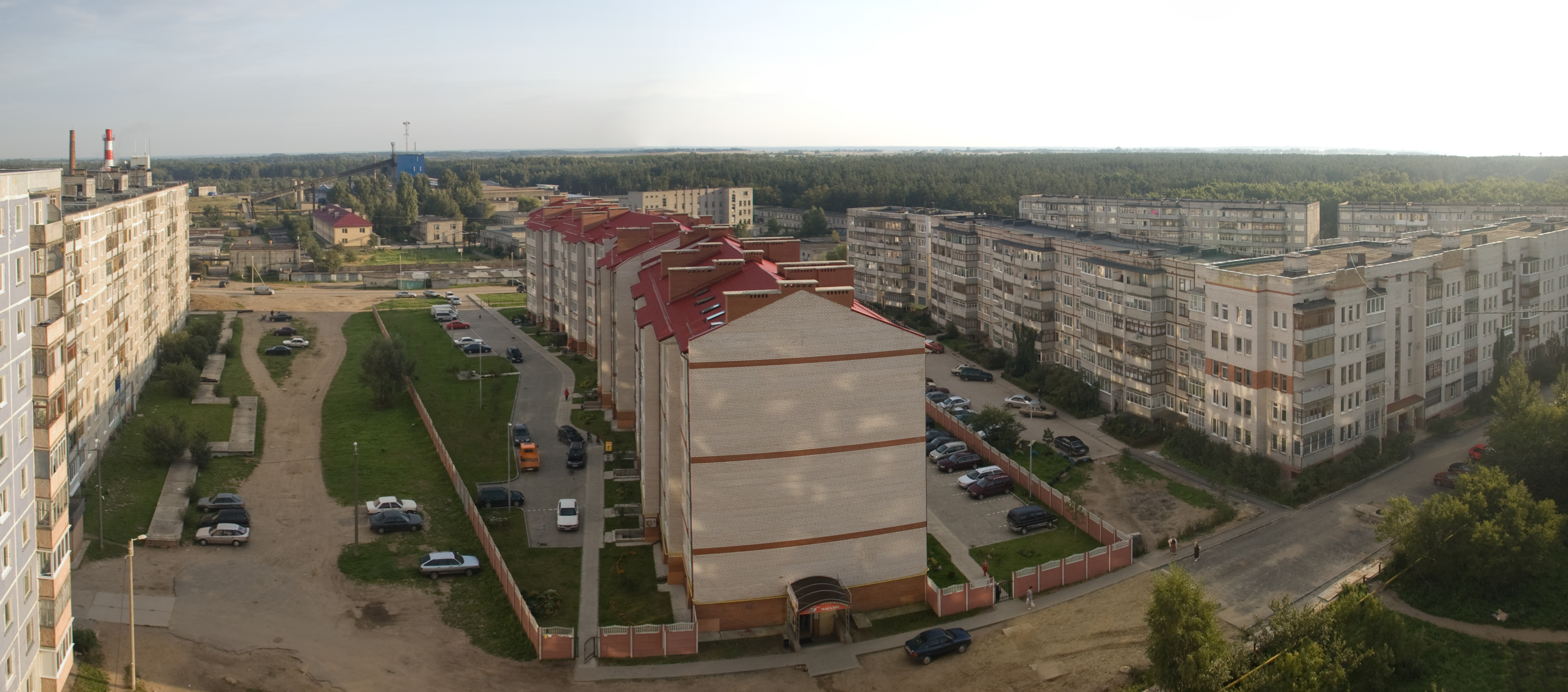 Pribrezhniy (part of Kaliningrad). Panorama.